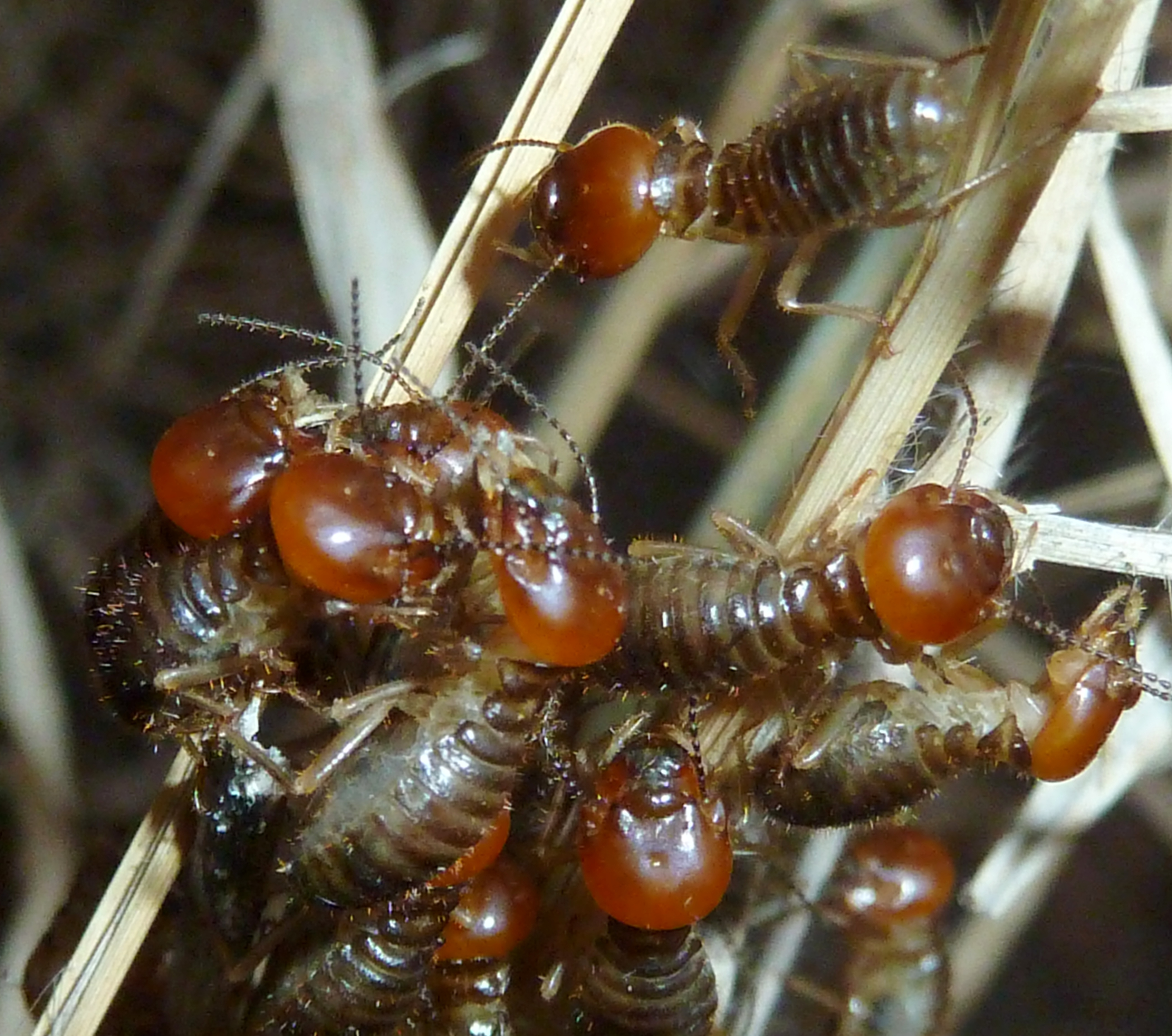 Workers of the Northern harvester termite dismembering dry grass blades at dusk, in the Spekboom hills, Limpopo. Their gnawing is audible where they are active. Though none are visible here, a few soldiers may mingle with the workers to inflict a painful bite on an intruder.